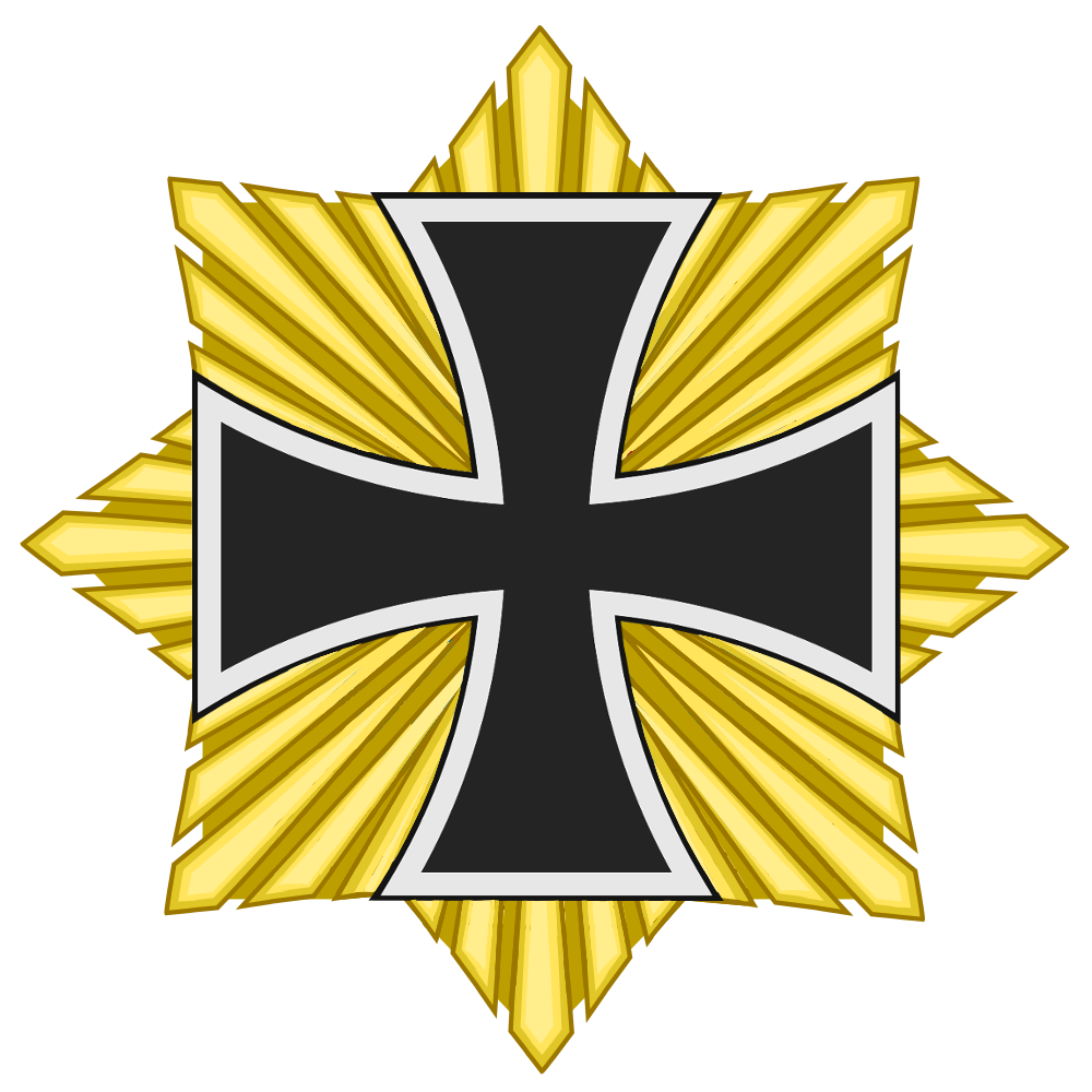 Star of the Grand Cross of the Iron Cross Medal